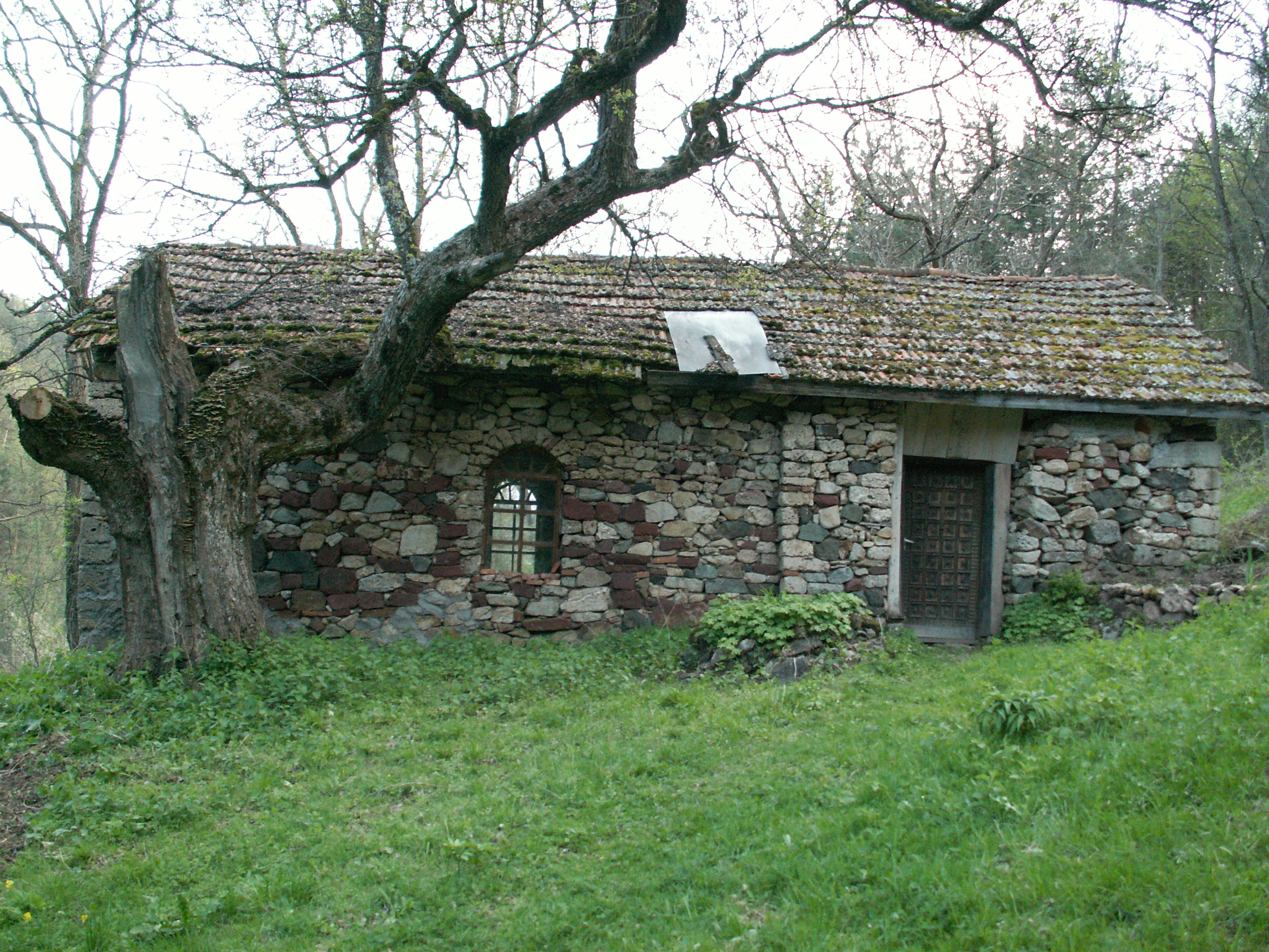 Zabel monastery Saint Dimitar, Bulgaria.